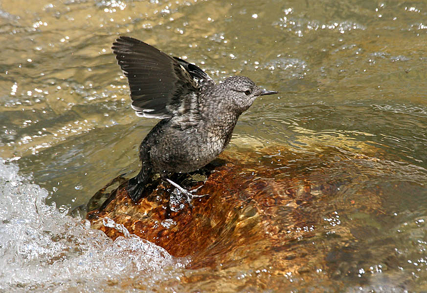 Brown Dipper Cinclus pallasii at Kasol (6500 ft.) in Kullu District of Himachal Pradesh, India.